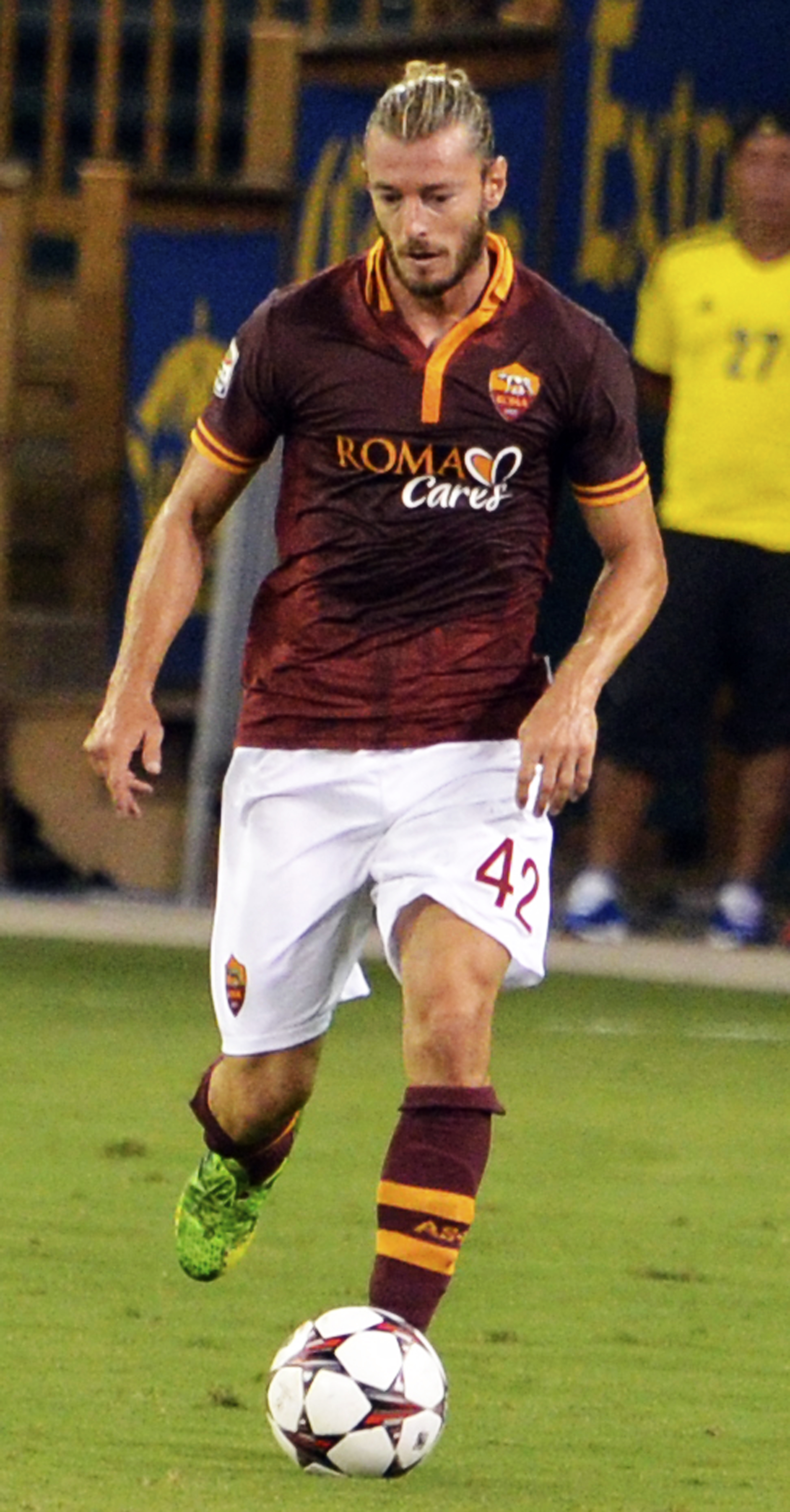 Federico Balzaretti of AS Roma warming up prior to a friendly game against Chelsea FC. Game was played at Robert F. Kennedy Memorial Stadium in Washington D.C. on 10AUG2013.